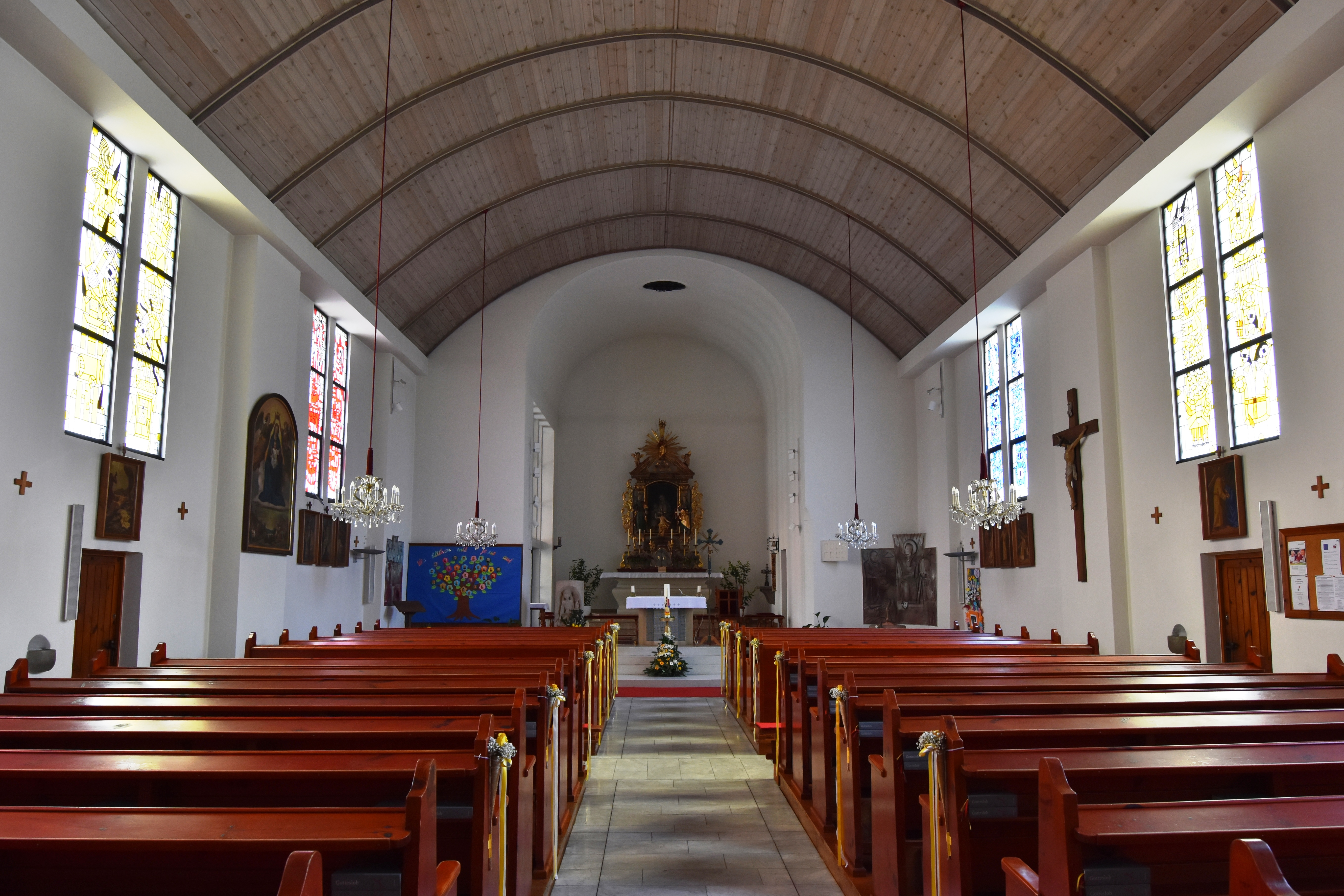 Church Frauental an der Laßnitz - Interior